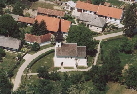 Csaroda, Hungary, aerial photogrphy This is a photo of a monument in Hungary, Identifier: 8205